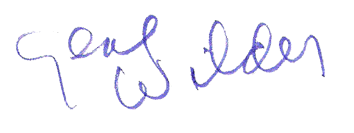 Gene Wilder's signature